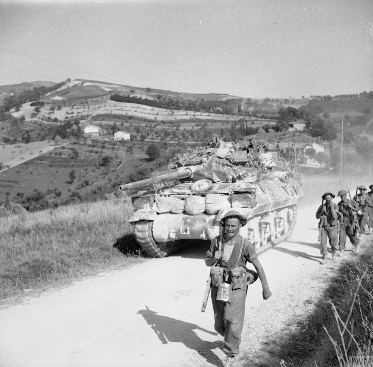 The British Army in Italy 1944 An M10 tank destroyer of 93rd Anti-Tank Regiment passes infantry of the 5th Sherwood Foresters during the advance to the Gothic Line, 27-28 August 1944.